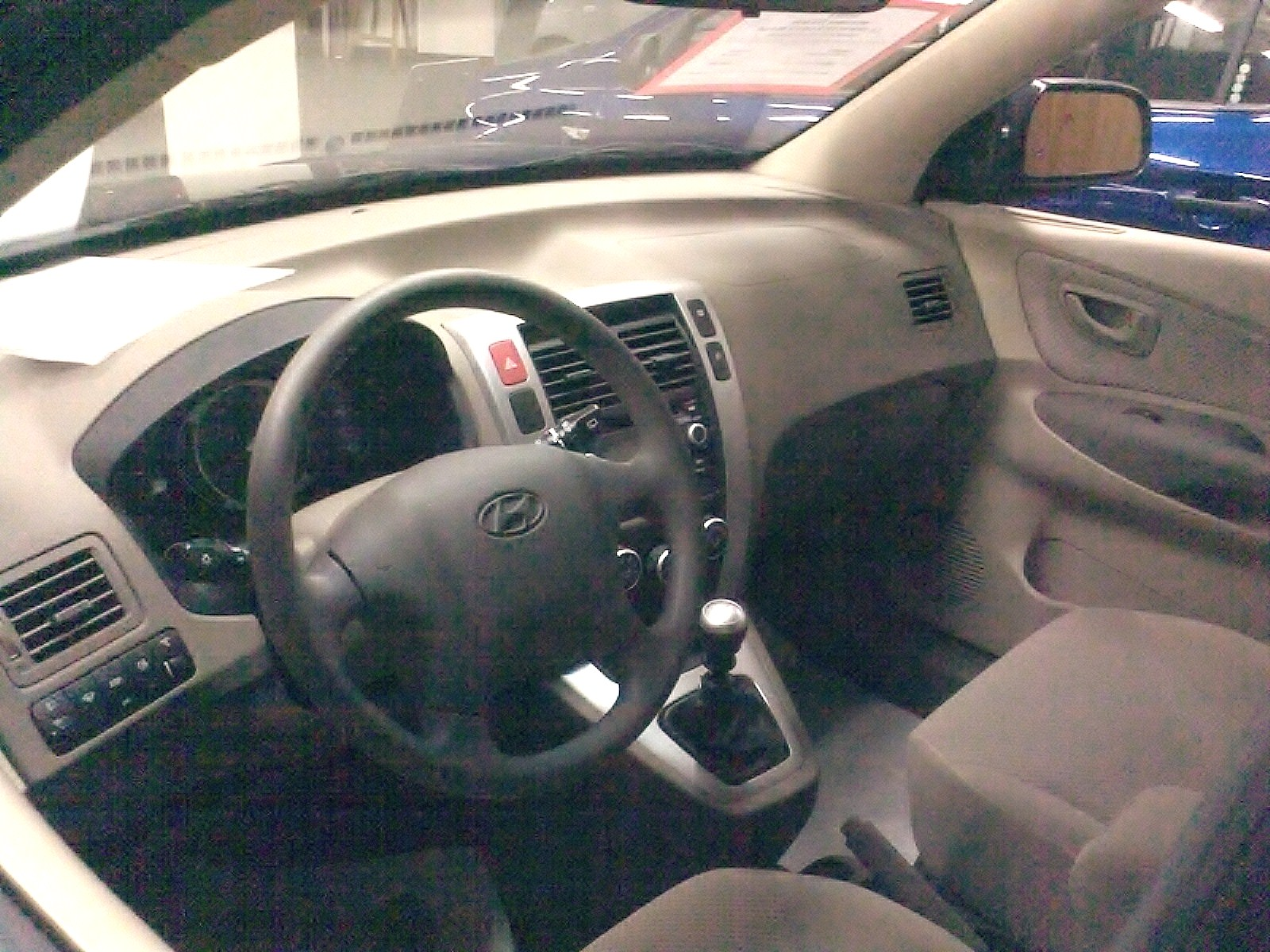 Hyundai Tucson